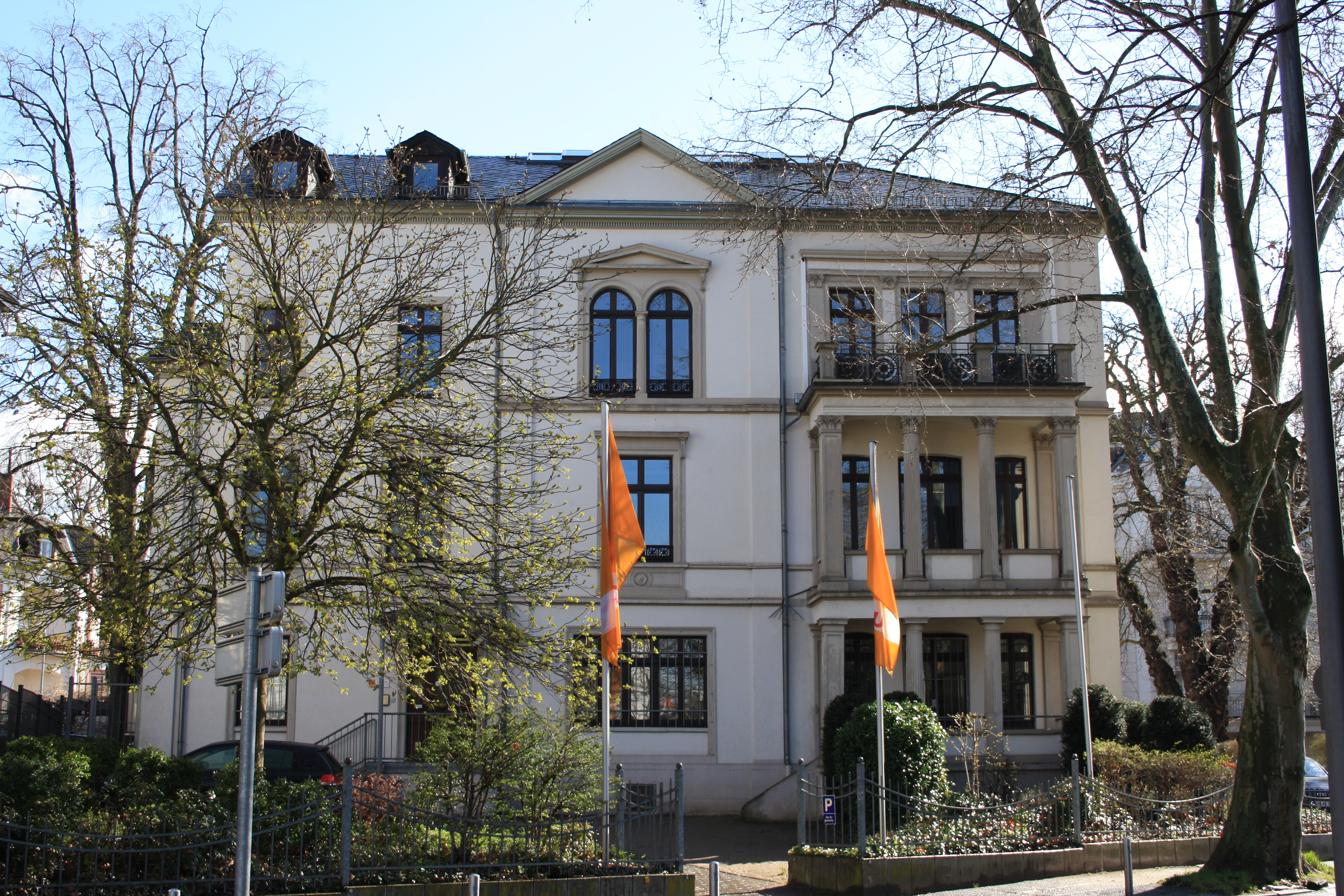 Germany, Wiesbaden, Frankfurter Str. 6